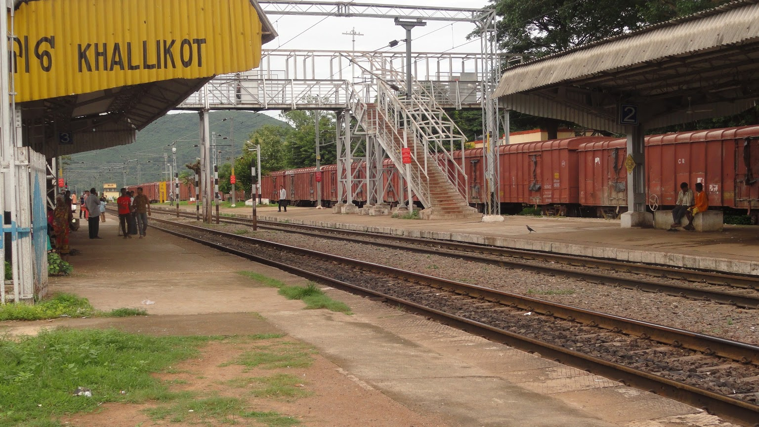 This is the Picture of Khallikot railway station